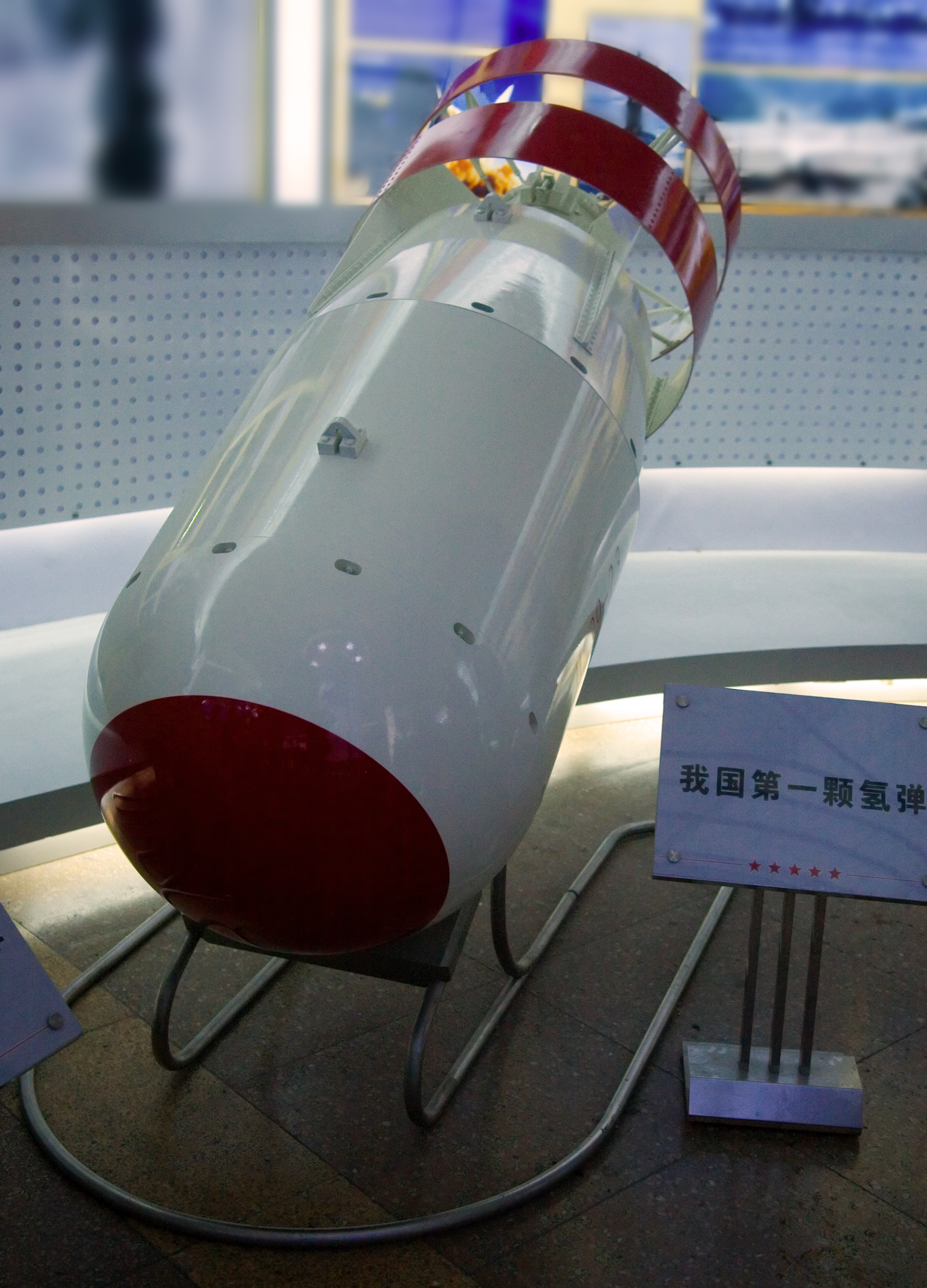 Chinese nuclear bomb on display at "Our troops towards the Sky." Podium translation: "Our first hydrogen bomb."